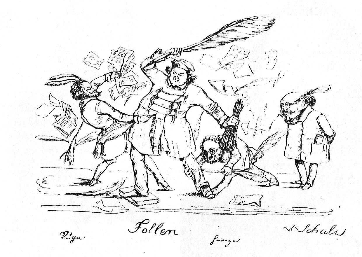 Dispute about Atheism in Zurich (left to right: Arnold Ruge, August Ludwig Follen, Karl Heinzen, Friedrich Wilhelm Schulz)